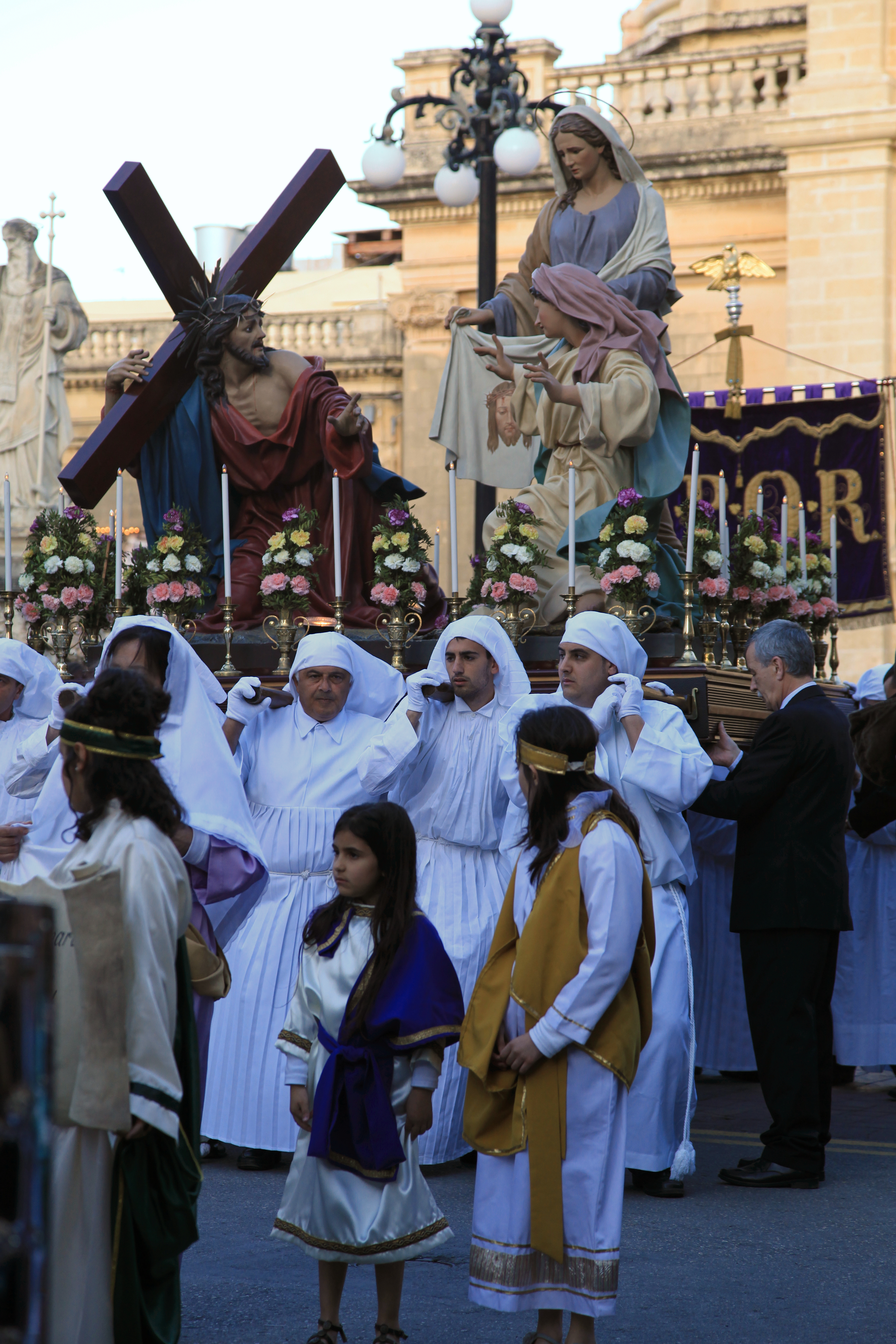 2014 Good Friday procession, Misraħ San Filep in Żebbuġ, Malta